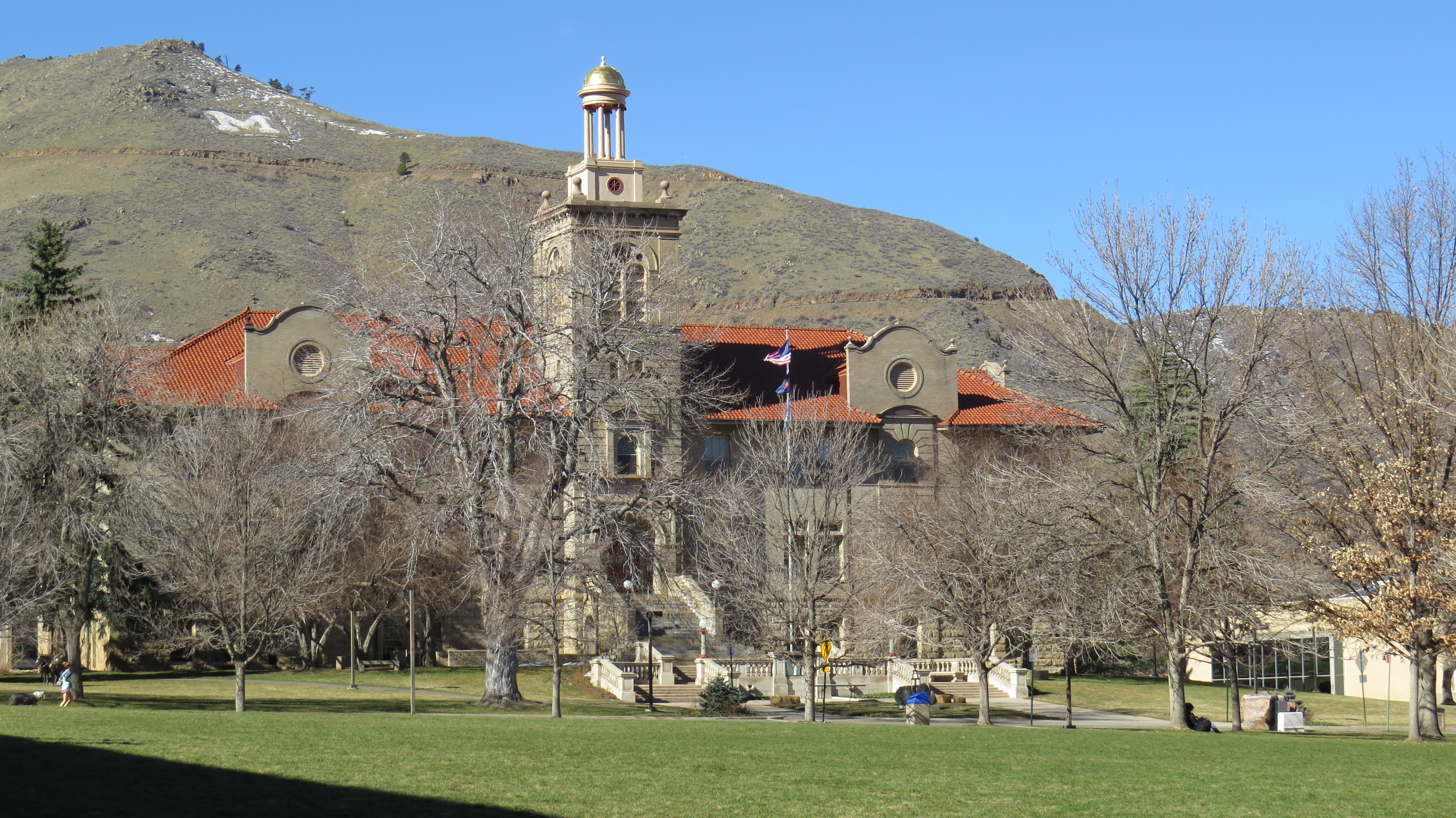 Guggenheim Hall, Colorado School of Mines, at Golden, Colorado, United States.